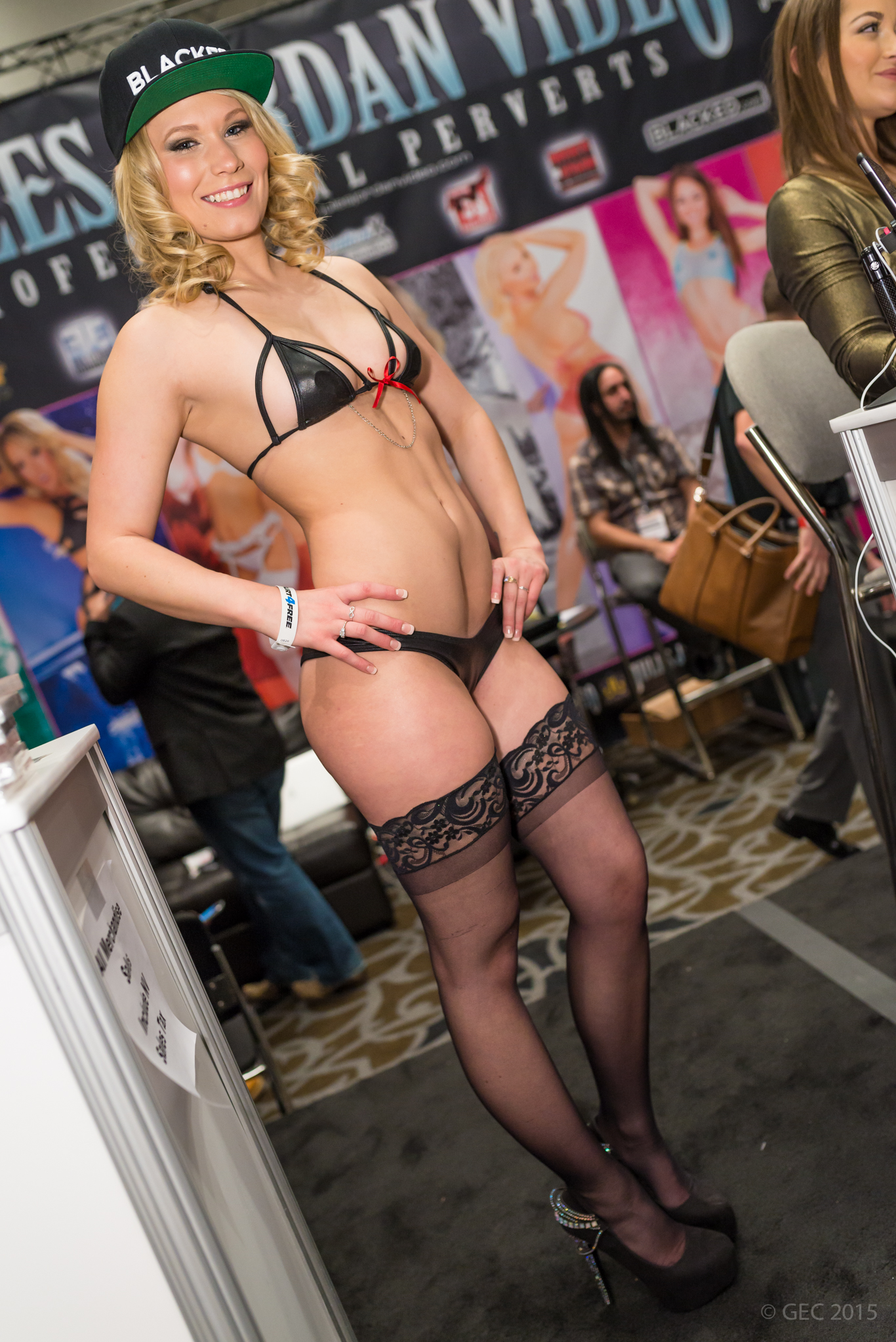 Dakota James at the AVN Adult Entertainment Expo in Las Vegas on January 22, 2015